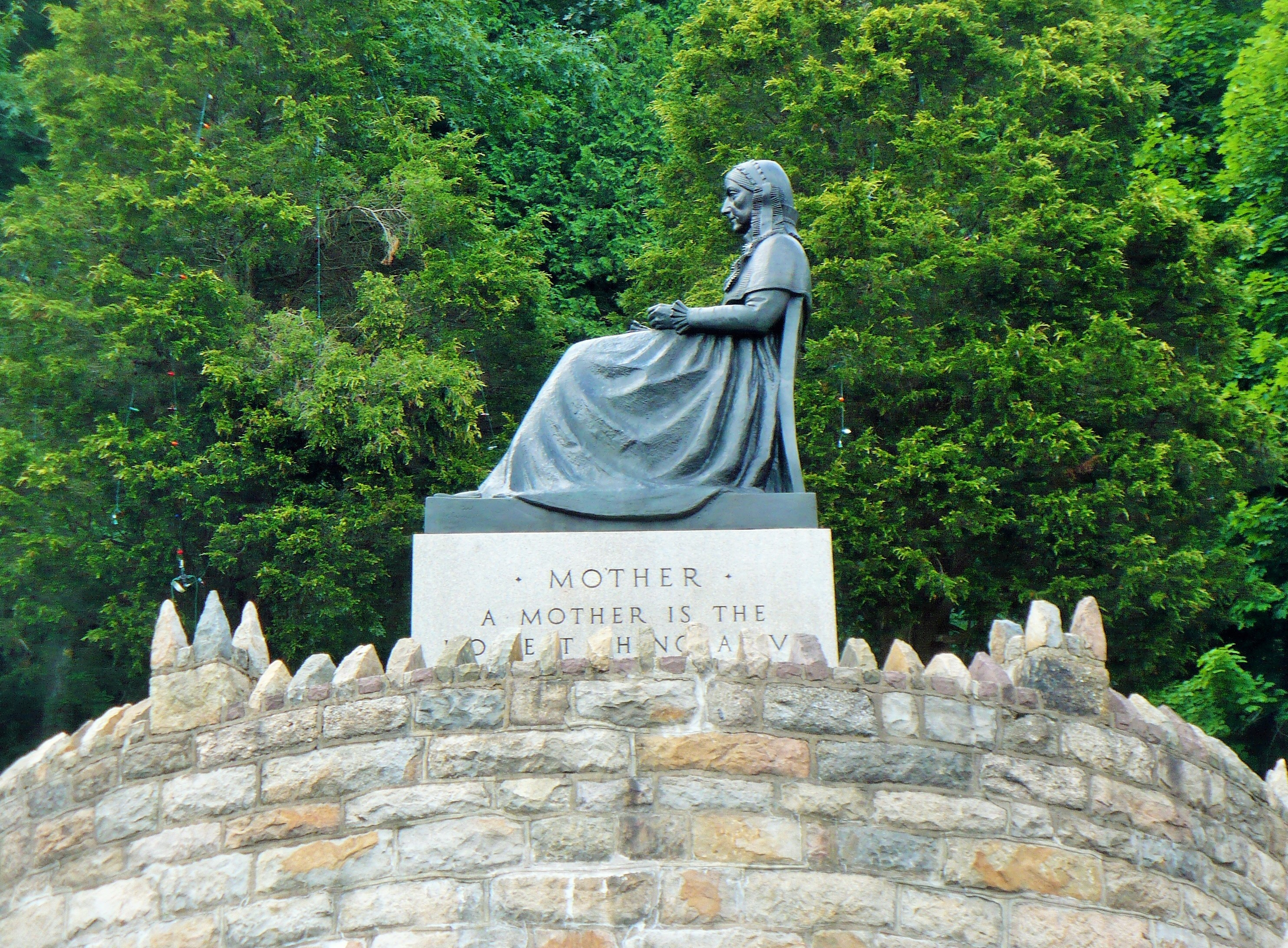 The Mothers' Memorial in Ashland, Schuylkill County, Pennsylvania features a bronze sculpture based on the famous James McNeill Whistler painting: An Arrangement in Grey and Black No. 1, commonly known as Whistler's Mother. The memorial honors all mothers of the United States, and is the only one of its kind in the world. The Mothers' Memorial was commissioned and erected during the misery of the Great Depression by the Ashland Boys' Association, and dedicated on Labor Day weekend 1938. The Work Progress Administration (WPA) completed the stone masonry work.